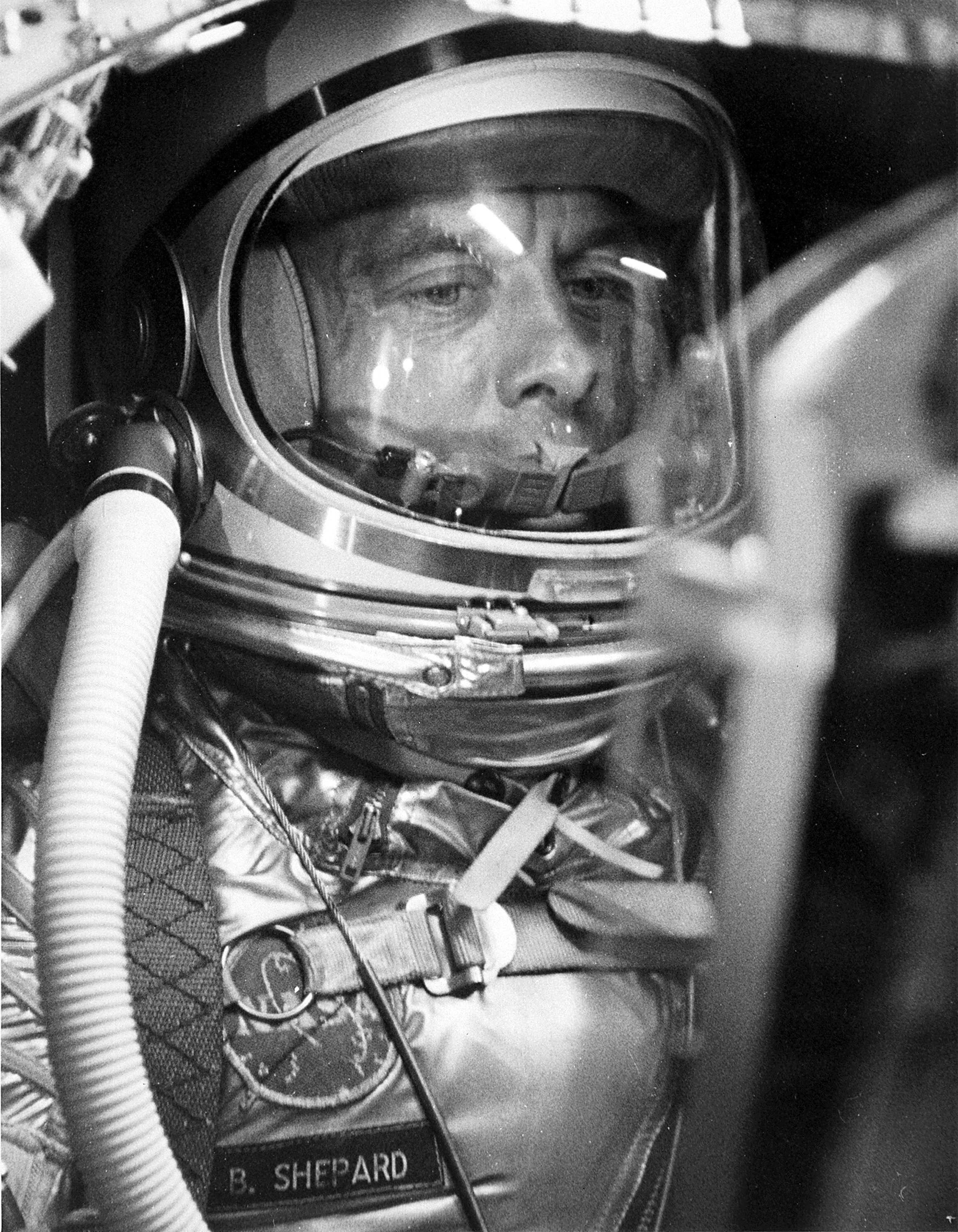 A closeup of astronaut Alan Shepard in his space suit seated inside the Mercury capsule. He is undergoing a flight simulation test with the capsule mated to the Redstone booster.